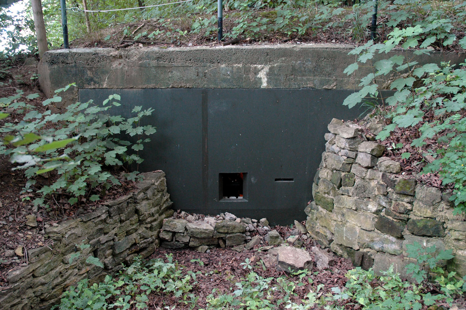 MG arrow slit of museum bunker 346 / Ro 1 of the Neckar-Enz line.